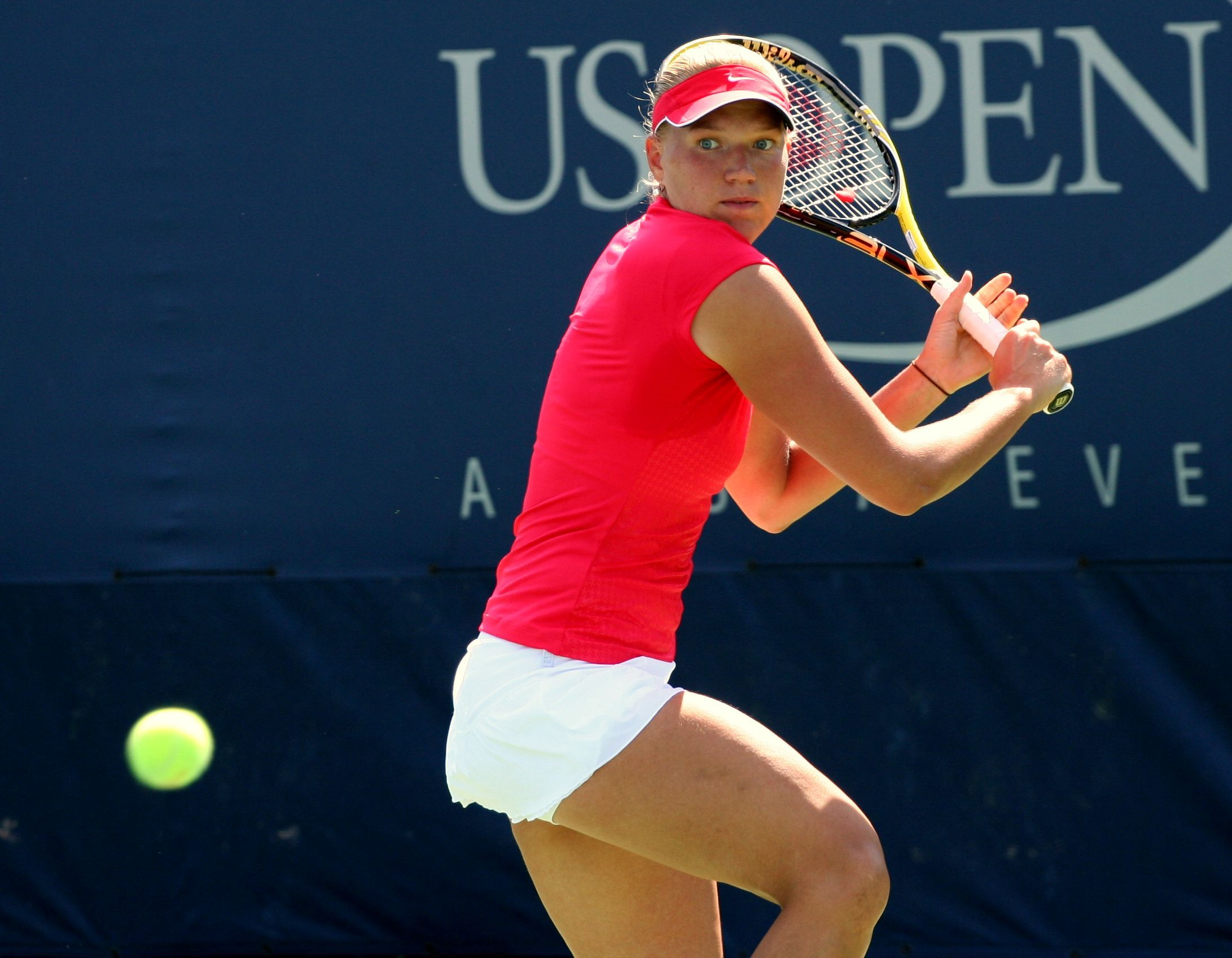 Kaia Kanepi at the 2011 U.S. Open Thursday, Sept. 1, 2011